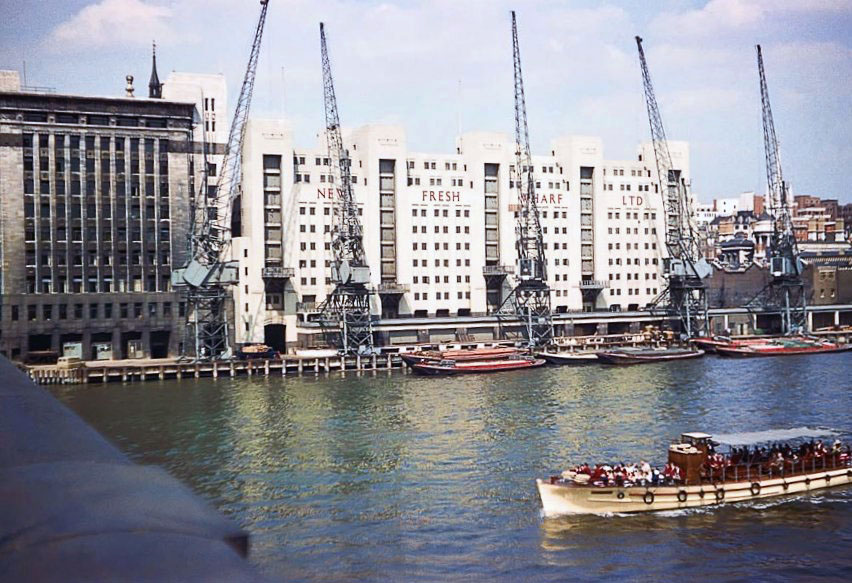 New Fresh Wharf near London Bridge